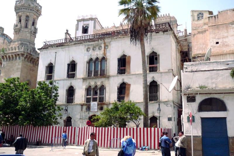 Dar Hassan Pacha. This palace was built in 1790/1791 by Hassan Bacha El Khaznadji (Pasha Hassan the Treasurer) who was the Minister of Finances of Alger's Dey Mohammed Ben Othman (1766 till 1791). As testimony of the past, this Moorish palace still keeps the name of the Pasha Hassan. It is situated in front of Dar Aziza and adjoins the Mosque Ketchaoua. It is necessary to note that at that time the Minister Hassan Bacha to make sure the nearness of his daughter Khdawedj had acquired the Palace of Princesses Khdaouedj [1].